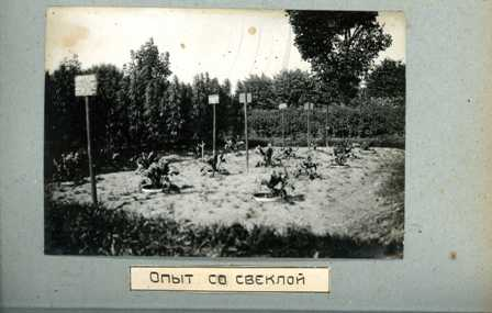 Timiryazev museum on Moscow streets